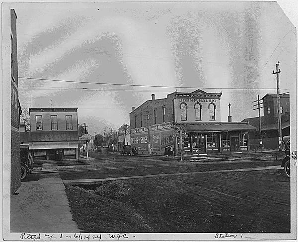 Photo of the city of Haubstadt, Indiana in 1924.